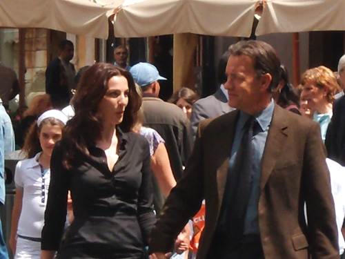 A picture of Ayelet Zurer and Tom Hanks from outside the Pantheon.